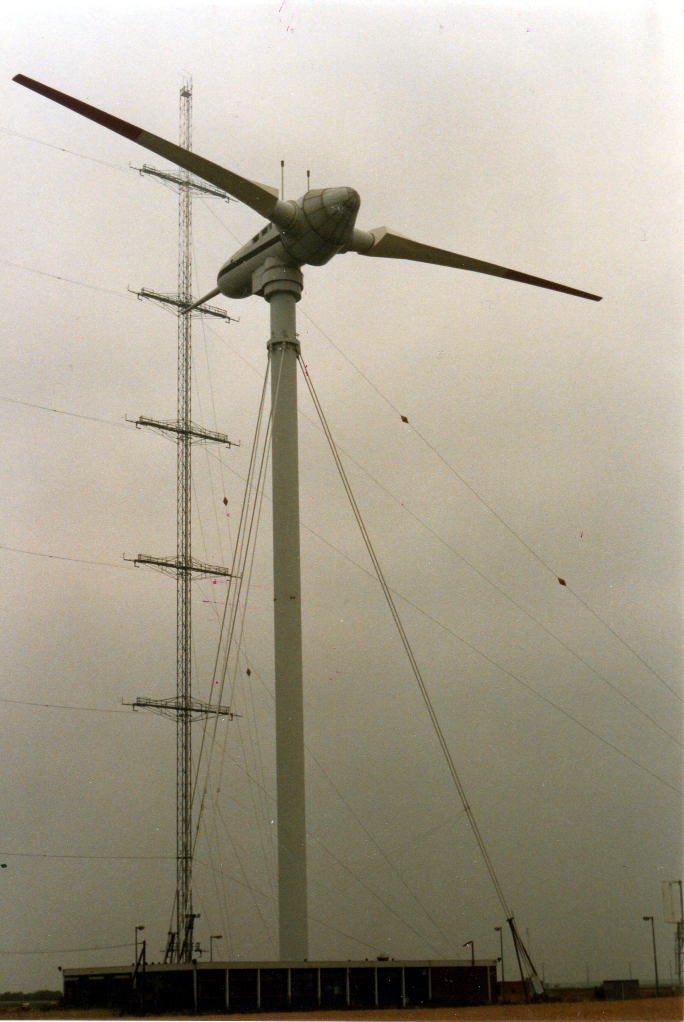 Growian in the summer of 1984, at the Kaiser-Wilhelm-Koog near Marne, Schleswig-Holstein, Germany